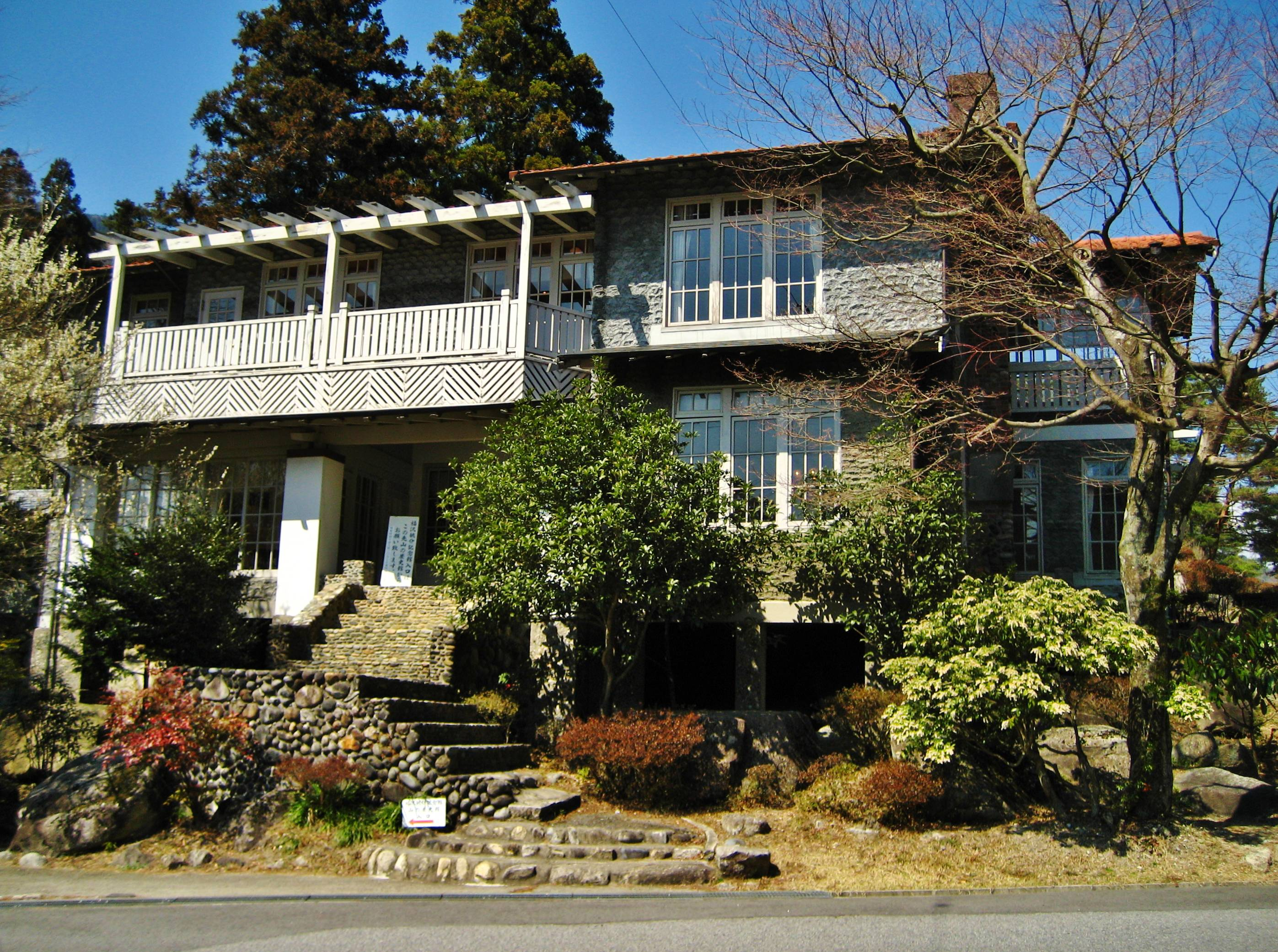 Fukuzawa Momosuke Memorial.